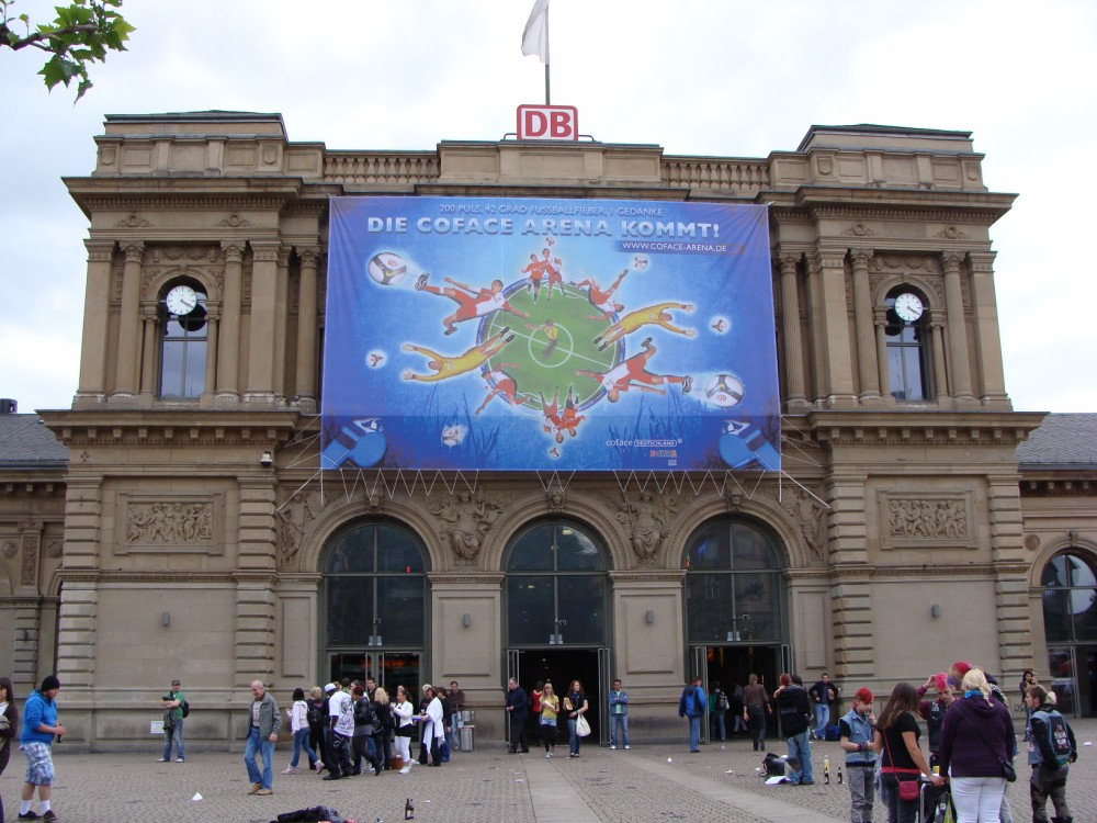 Mainz Hauptbahnhof